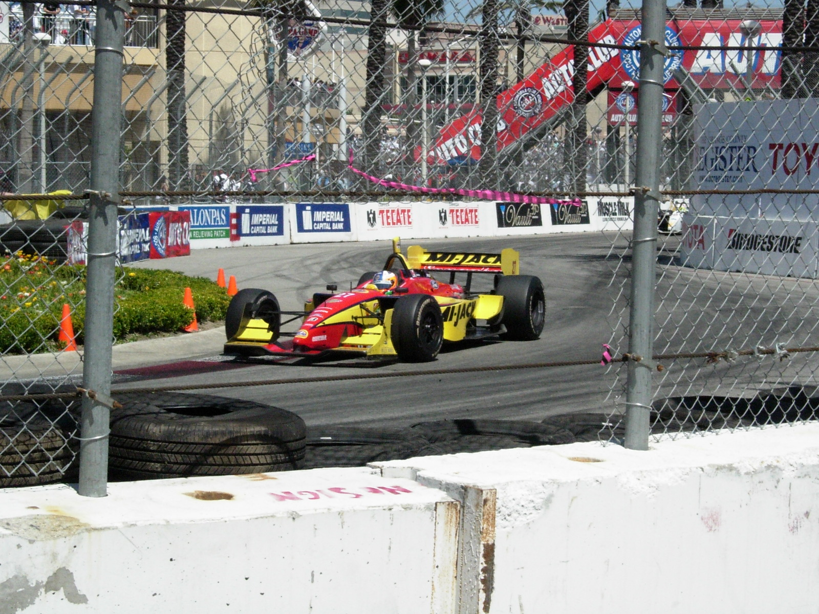 Fountain turn at Long Beach Grand Prix